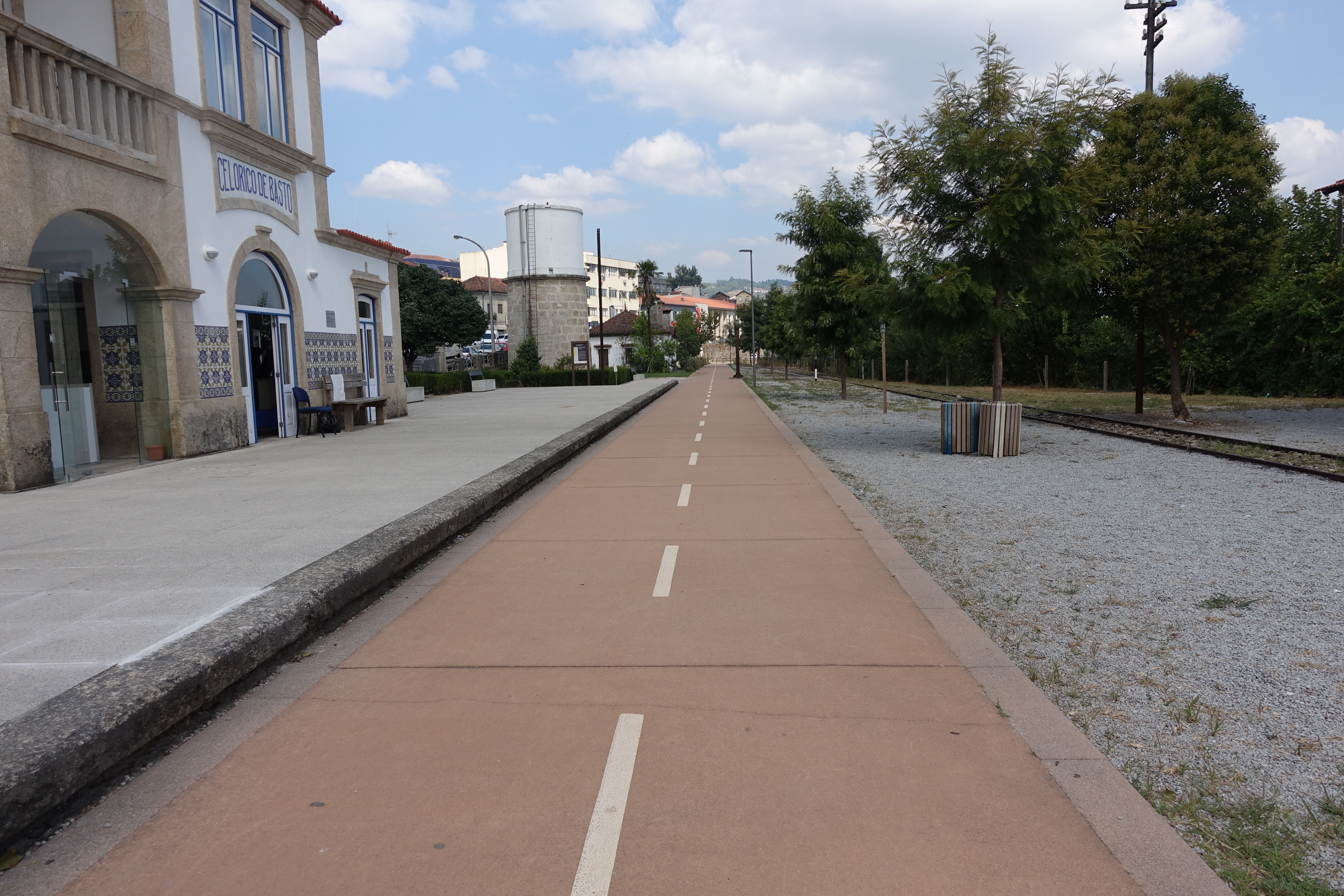 Ecopista do Tâmega, Portugal.